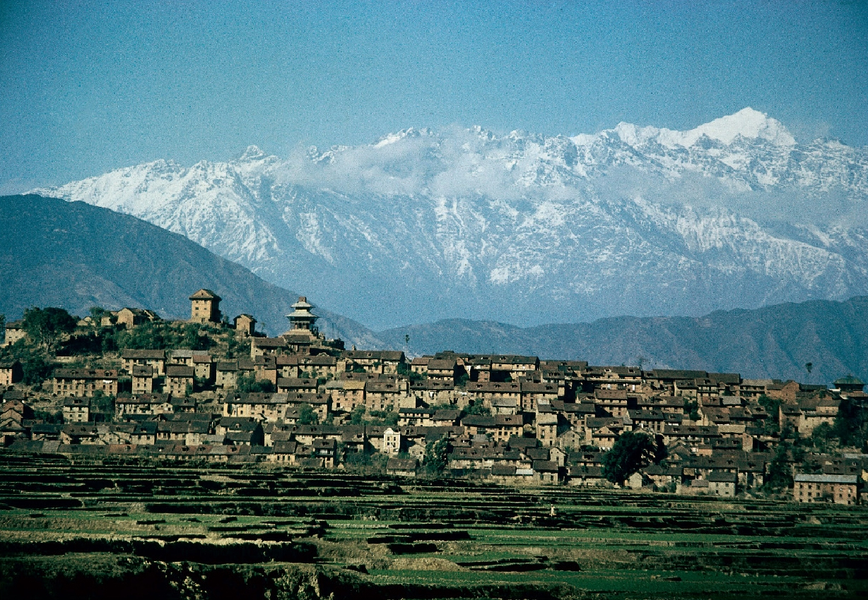 Kirtipur - which means 'glorious town' in Nepali - is a small town about 5 kilometre away from Kathmandu. The town was founded between 1099 and 1126 AD and is an open museum of religion, culture and tradition, as well as various types of ancient handicrafts. Photo: Toni Hagen Stiftung Schweiz-Nepal (Inheritance Toni Hagen), Nepal